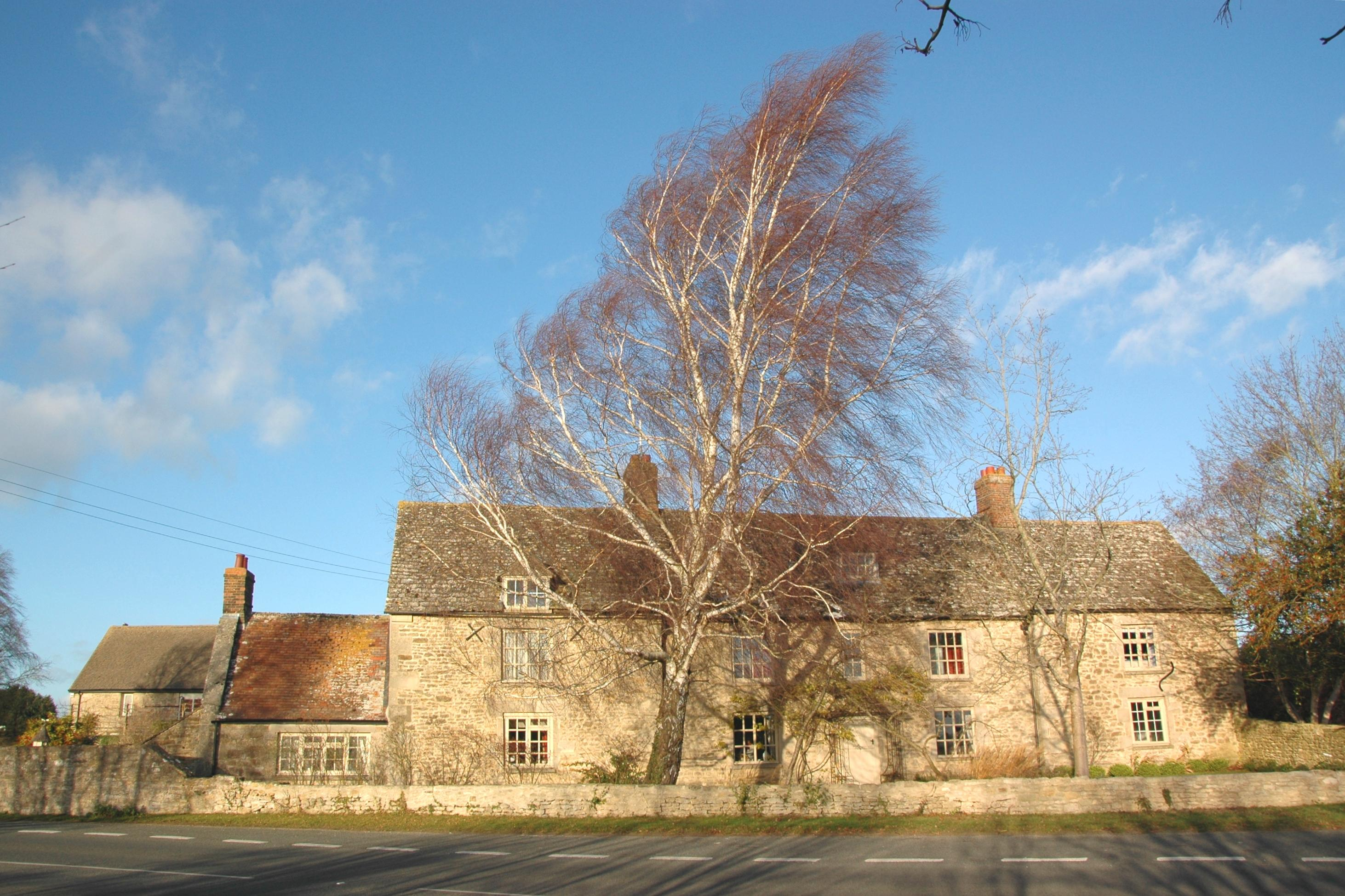 New Inn Farm, Stowood, near Beckley, Oxfordshire.